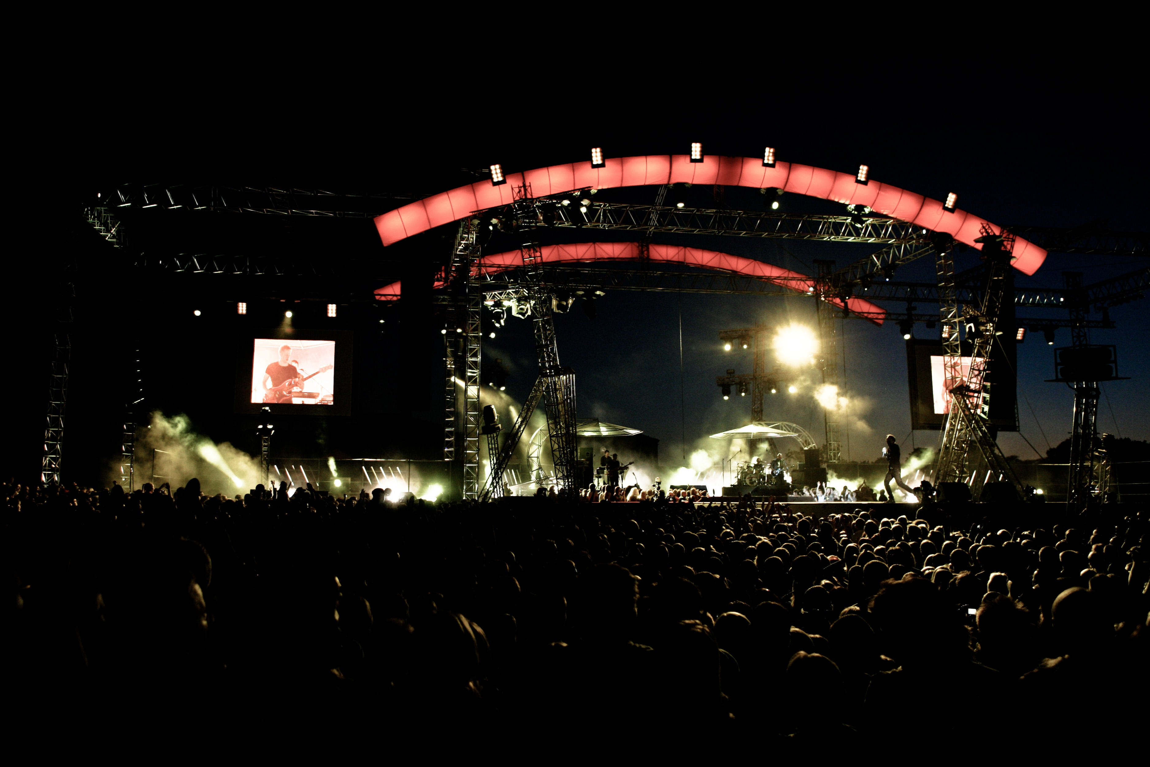 Prāta Vētra - Tūre Tur kaut kam ir jābūt 2008. gads